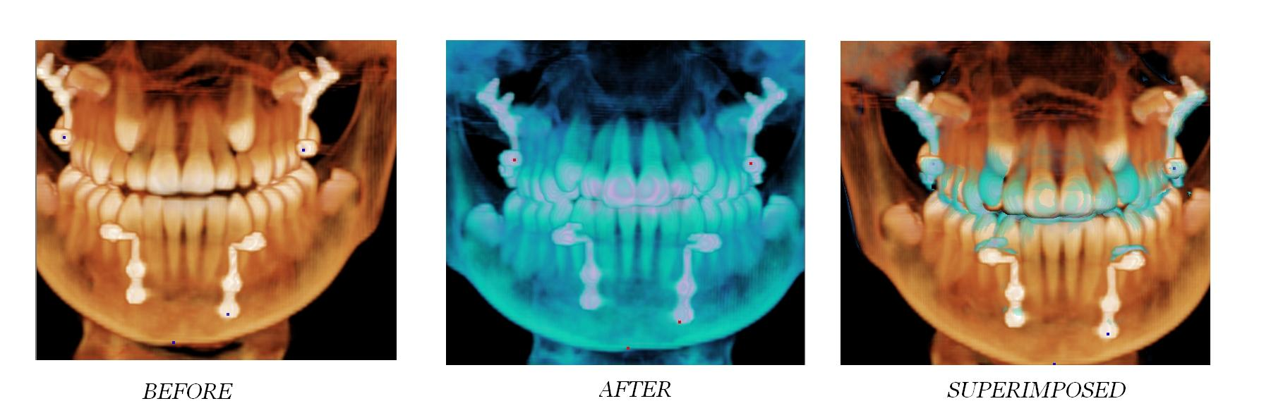 Implant Treatment planning